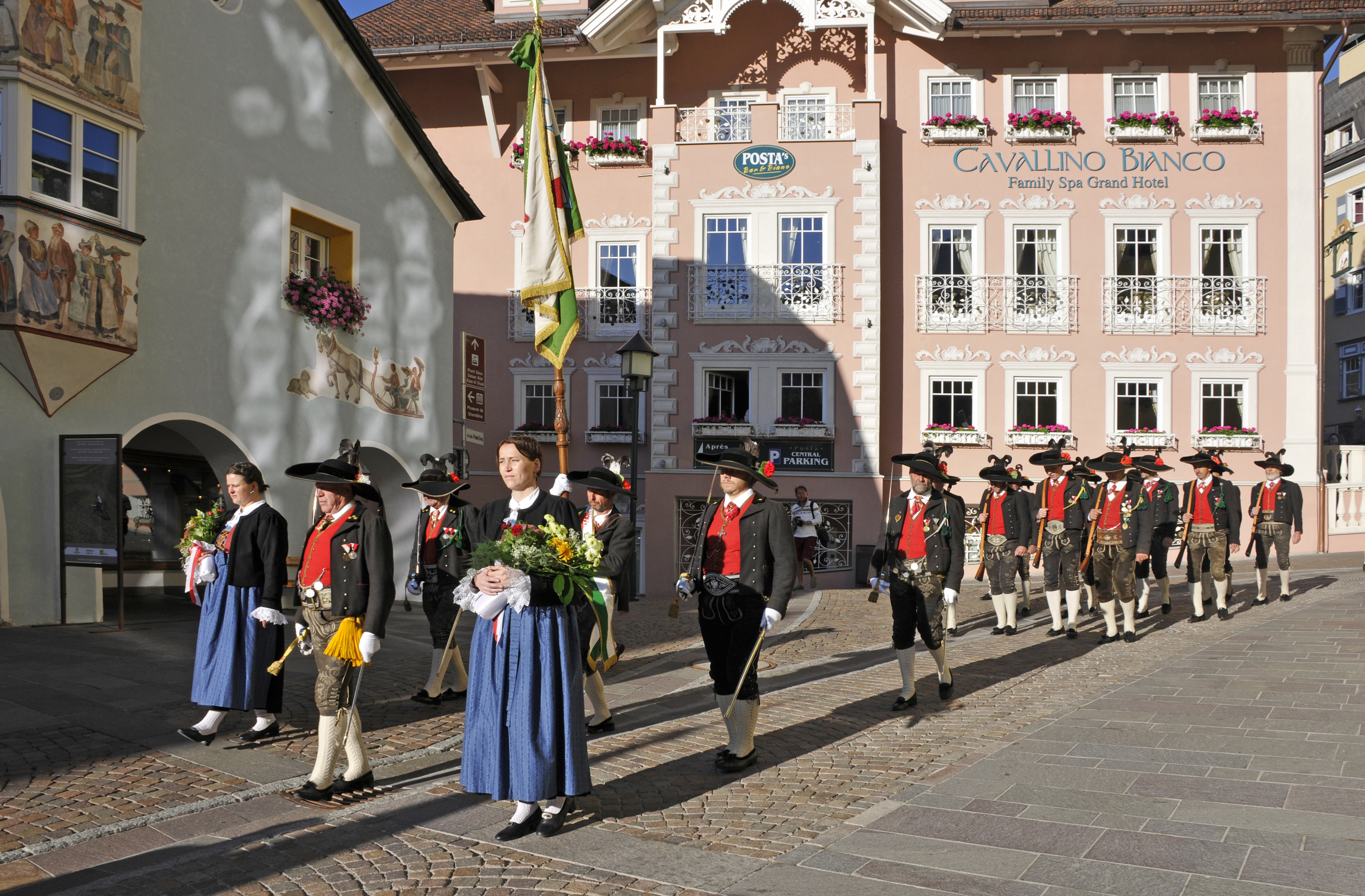 Costumes in Urtijei Gröden